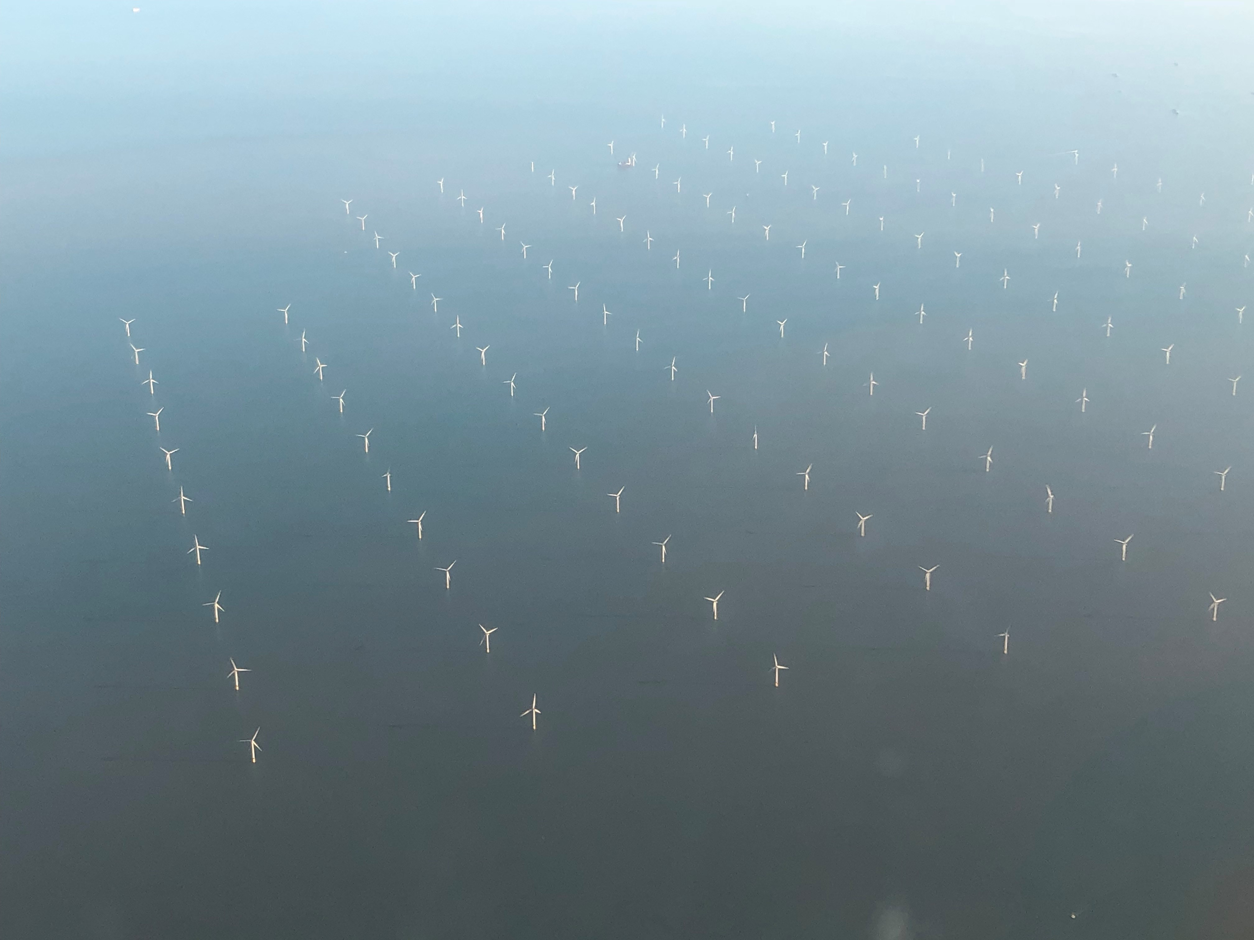 London Array wind farm as viewed from the air in February 2019 London_Array